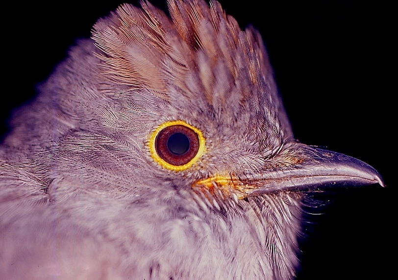 This nice cloud forest cotinga was discovered in the mountains of Anorí, Colombia in March 1999 by a group Colombian biology students from Universidad de Antioquia, Medellín....good times!!! Known from only four localities at the time of description in 2001, it is presently known from about 16 localities and it's still facing serious conservation threats!